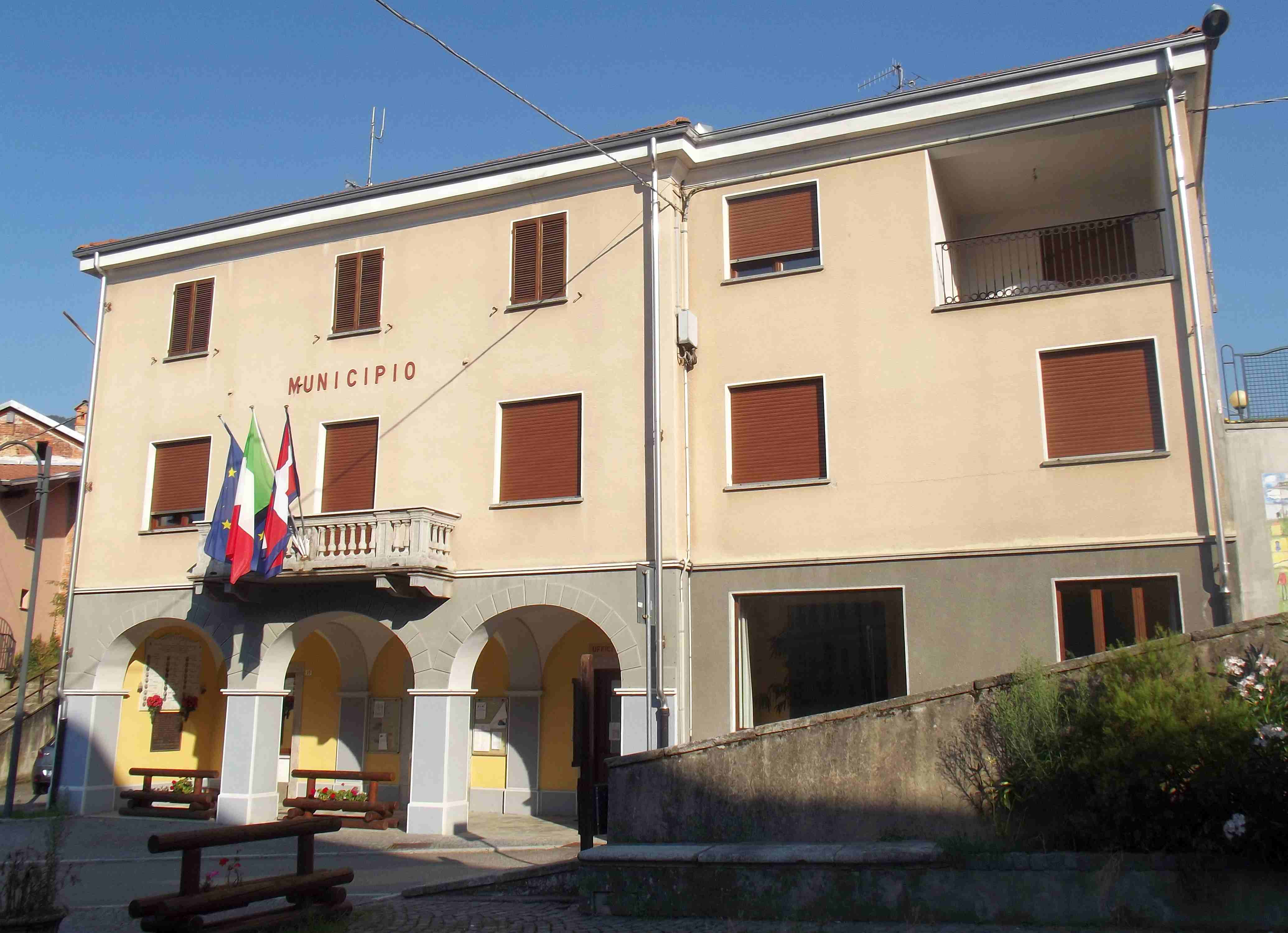 Portula (BI, Italy): town hall